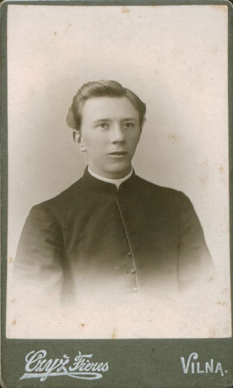 Liudas Gira as a cleric at the Vilnius Priest Seminary